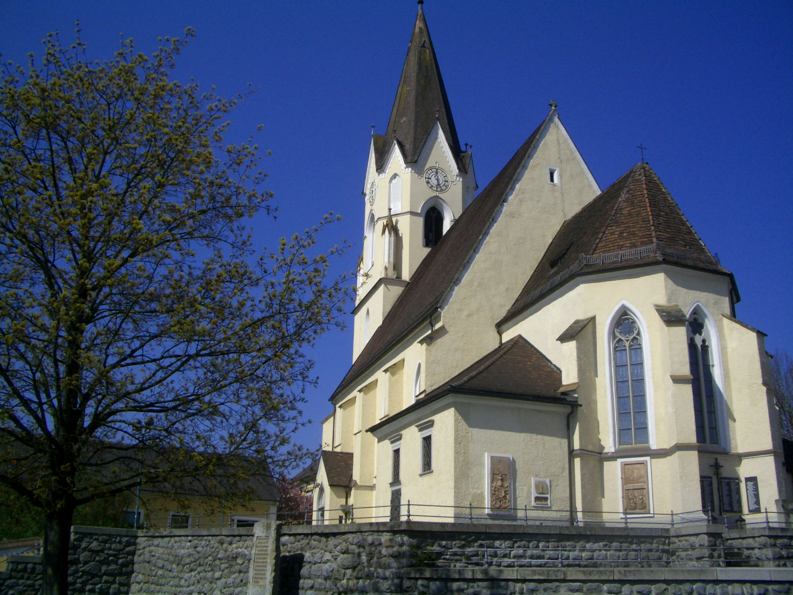 Church in Ried in der Riedmark, Upper Austria